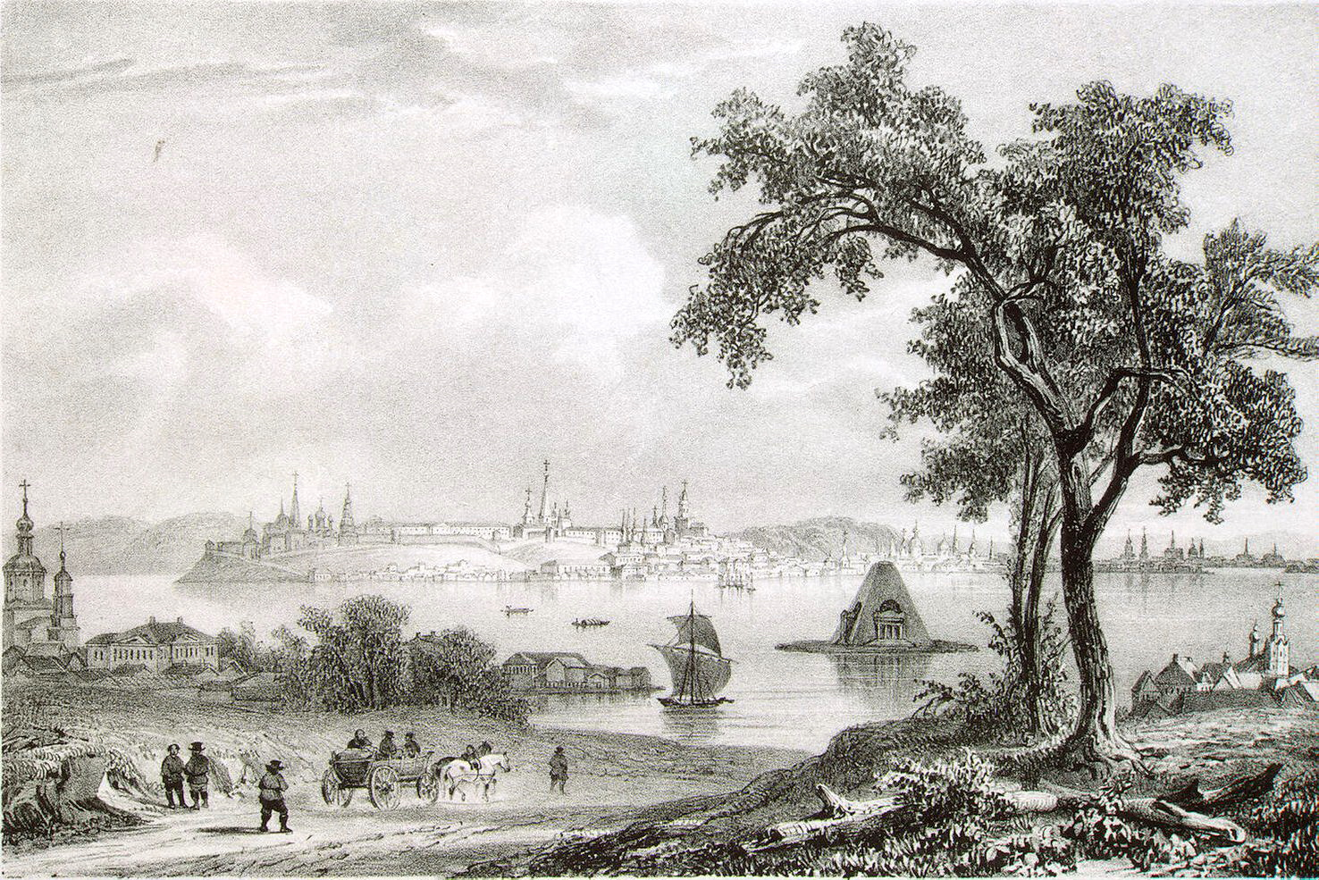 engraving by Chesskiy Ivan Vasilievich. Kazan in 18-19 cnt